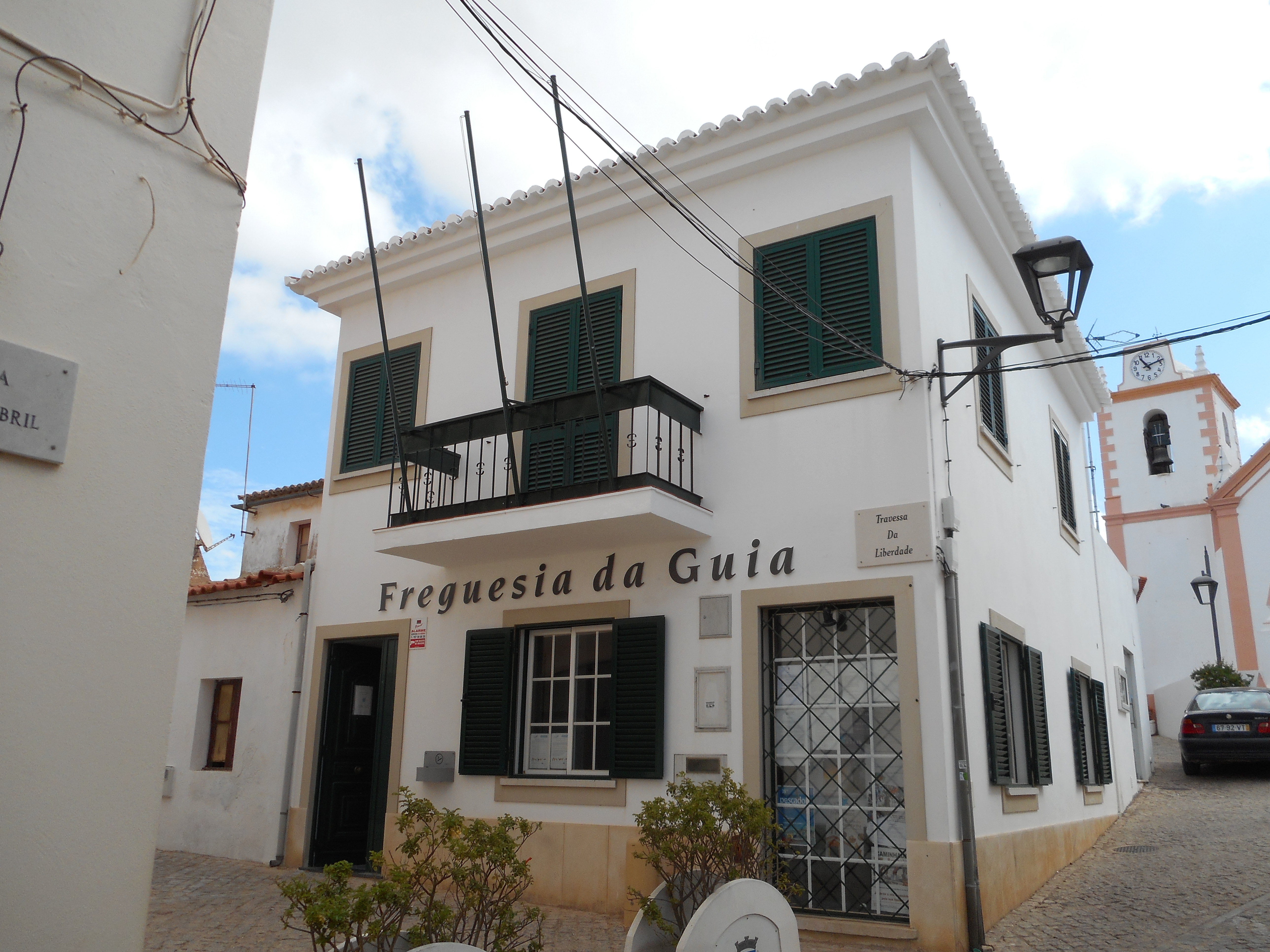 The office of the Freguesia da Guia (Parish of Guia) located in Travessa da Liberdade in the town of Guia, Algarve, Portugal. Guia Parish is in the municipality (Concelho) of Albufeira in the central Algarve, Portugal